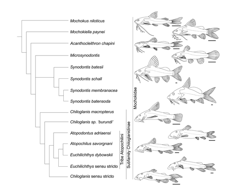 Mochokidae; Phylogenetic tree